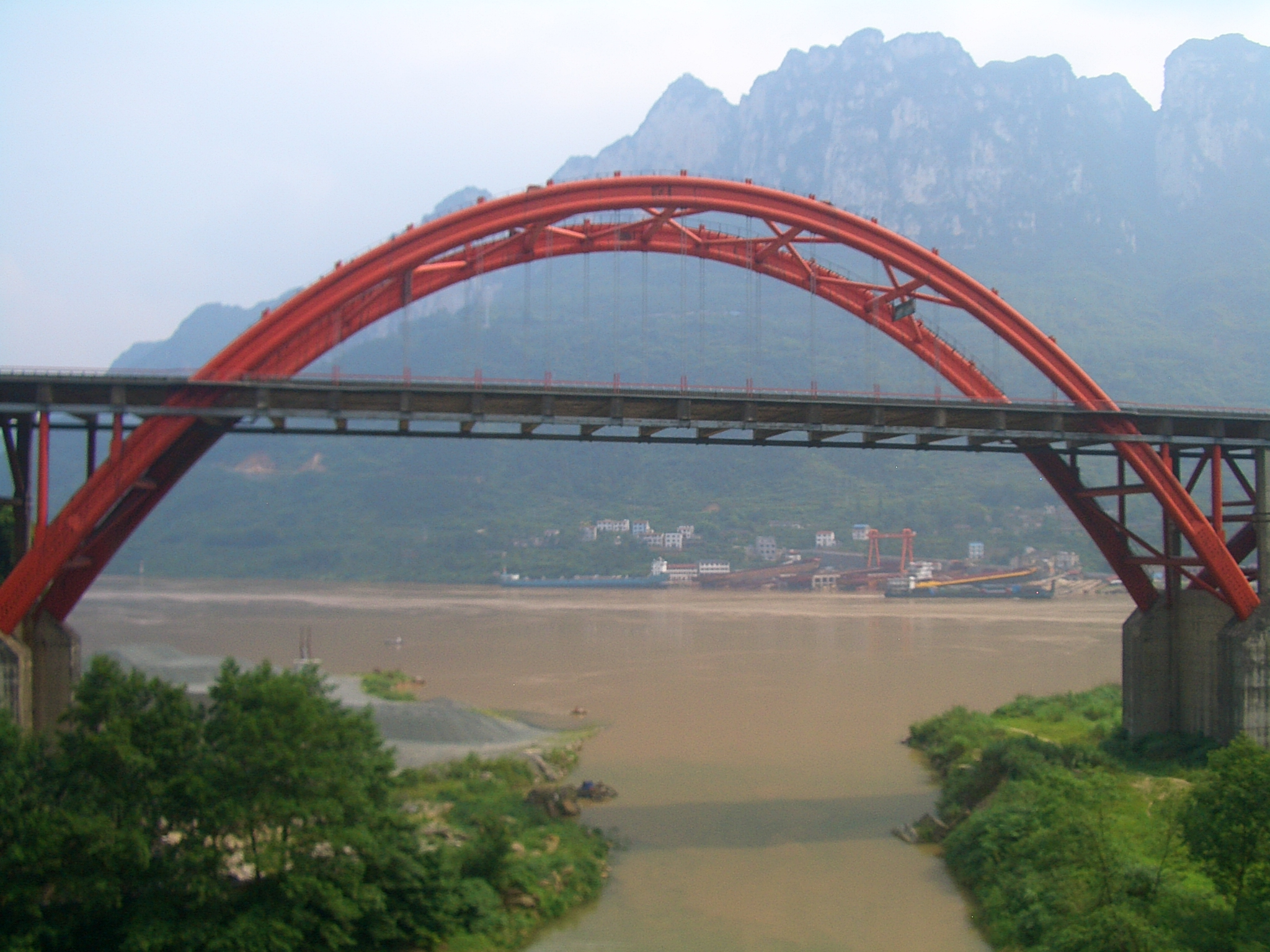 Bridge carrying Hubei S334 across a small river near its fall into the Yangtze (in the background) in Liantuo village (on the north side of the Yangtze, between Yichang and Sandouping Ferry)